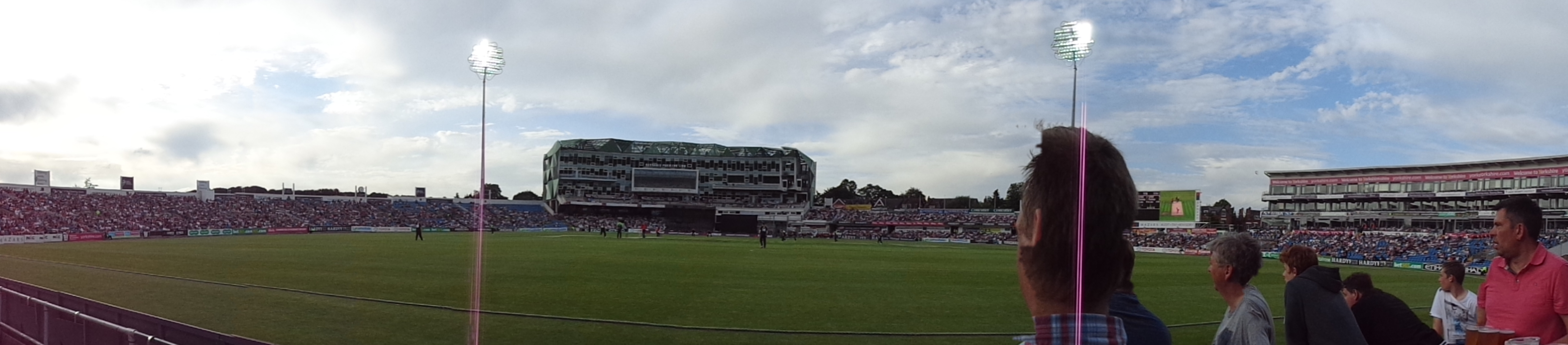 Yorkshire Vikings vs. Durham Jets, Headingley Stadium, Leeds, West Yorkshire. Taken on the evening of Friday the 10th of July 2015.